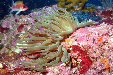 Condylactis gigantea